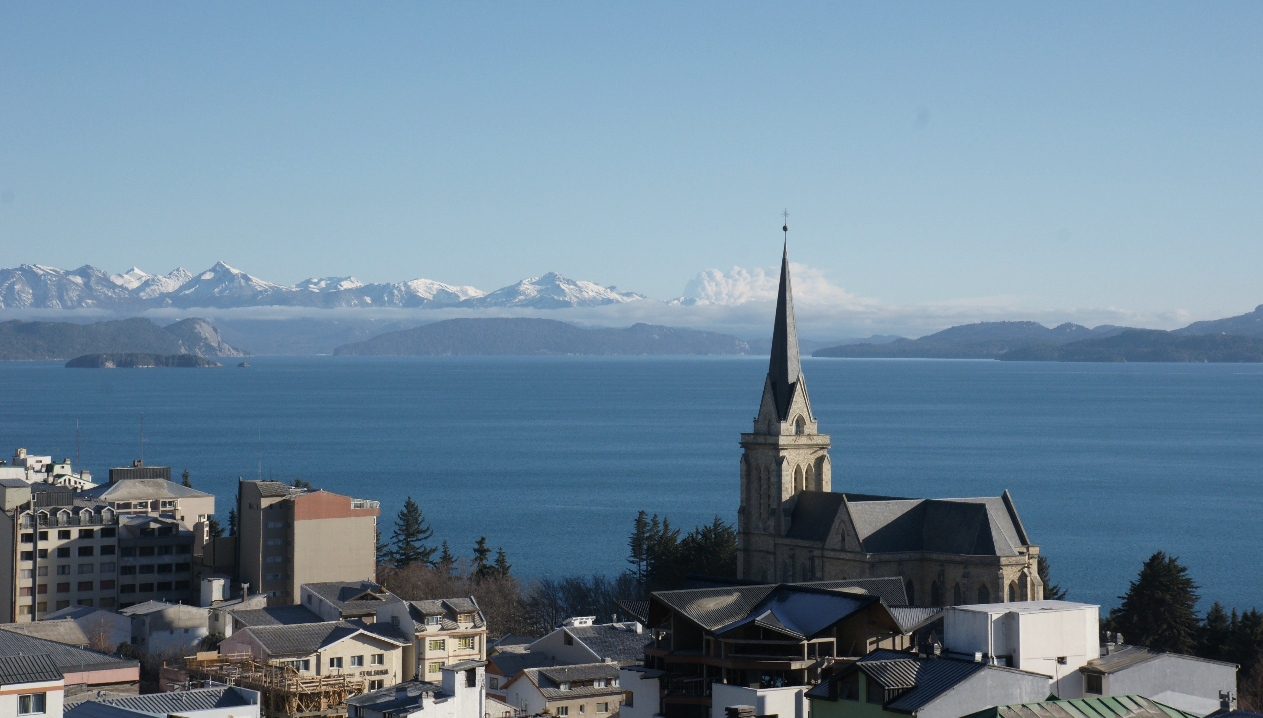 Ash plume of Puyehue Volcano seen from San Carlos de Bariloche.